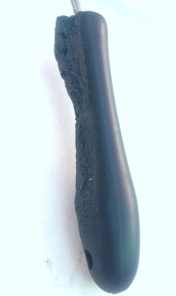 Melted plastic handle of a spatula